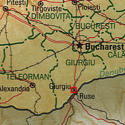 Map of Giurgiu Municipality, Romania.